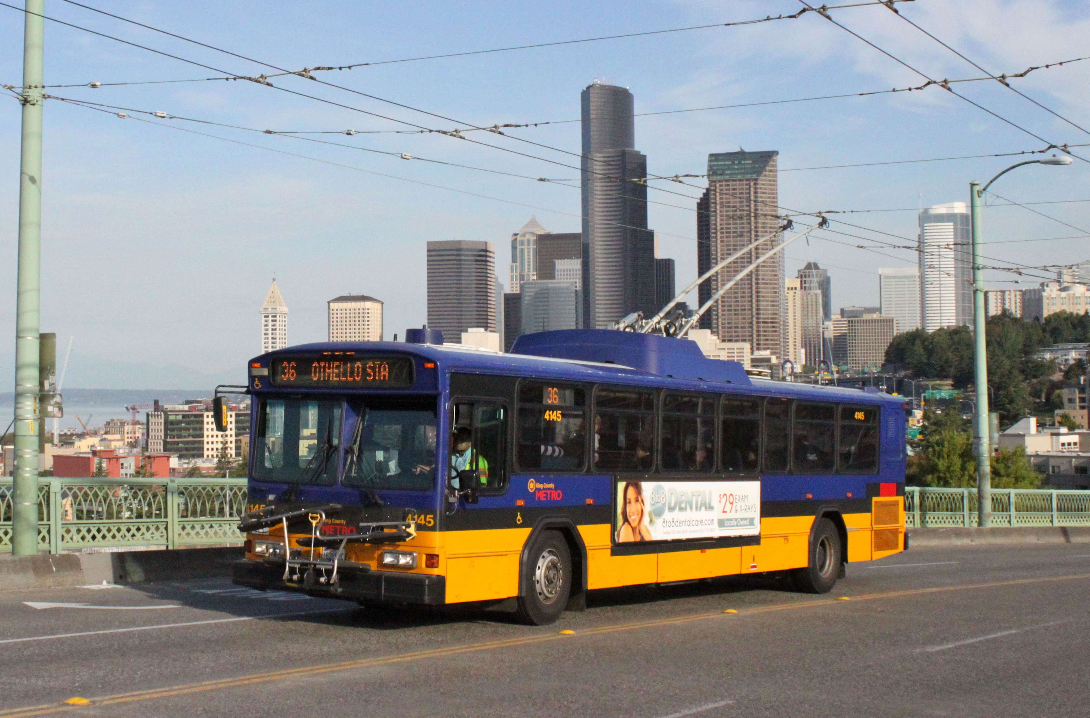 King County Metro 4145, a Gillig Phantom electric trolleybus, crossing the Jose Rizal Bridge on route 36 with the Downtown Seattle skyline in the background.